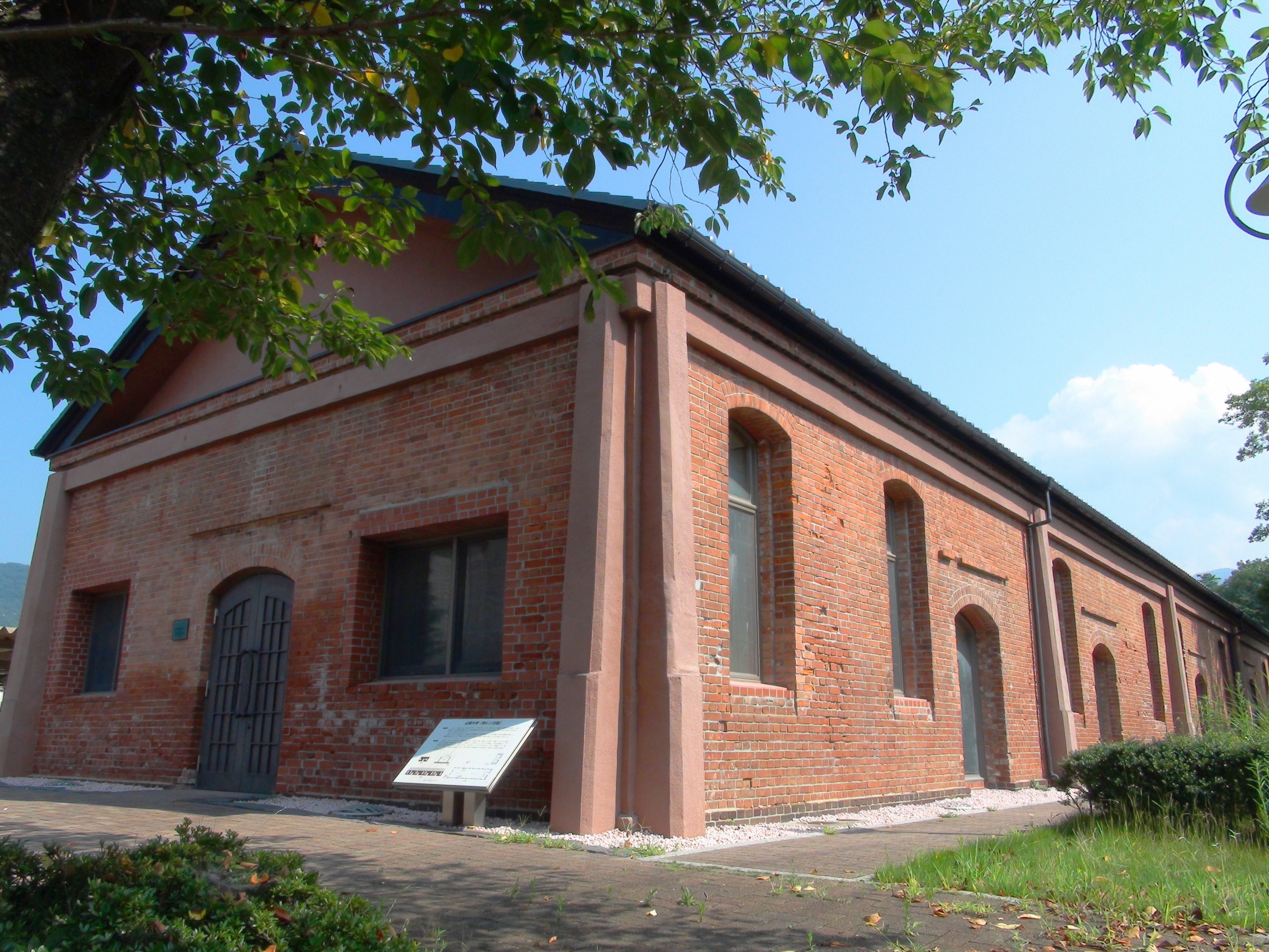 Japanese Army Infantry Regiment №49 red brick warehouse